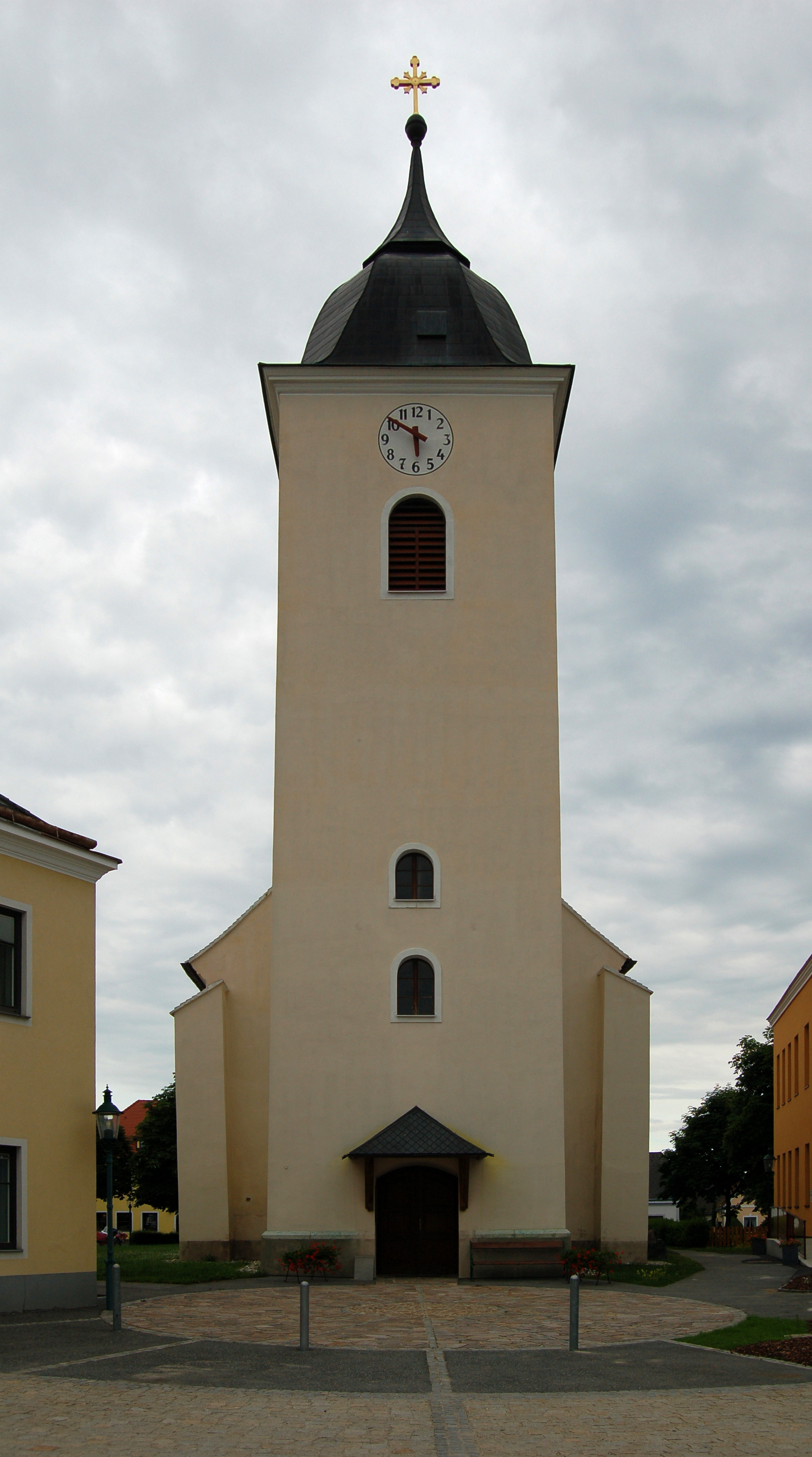 The parish church St. Jakob the elder in Neupölla, municipality of Pölla, Lower Austria, is a cultural heritage monument.